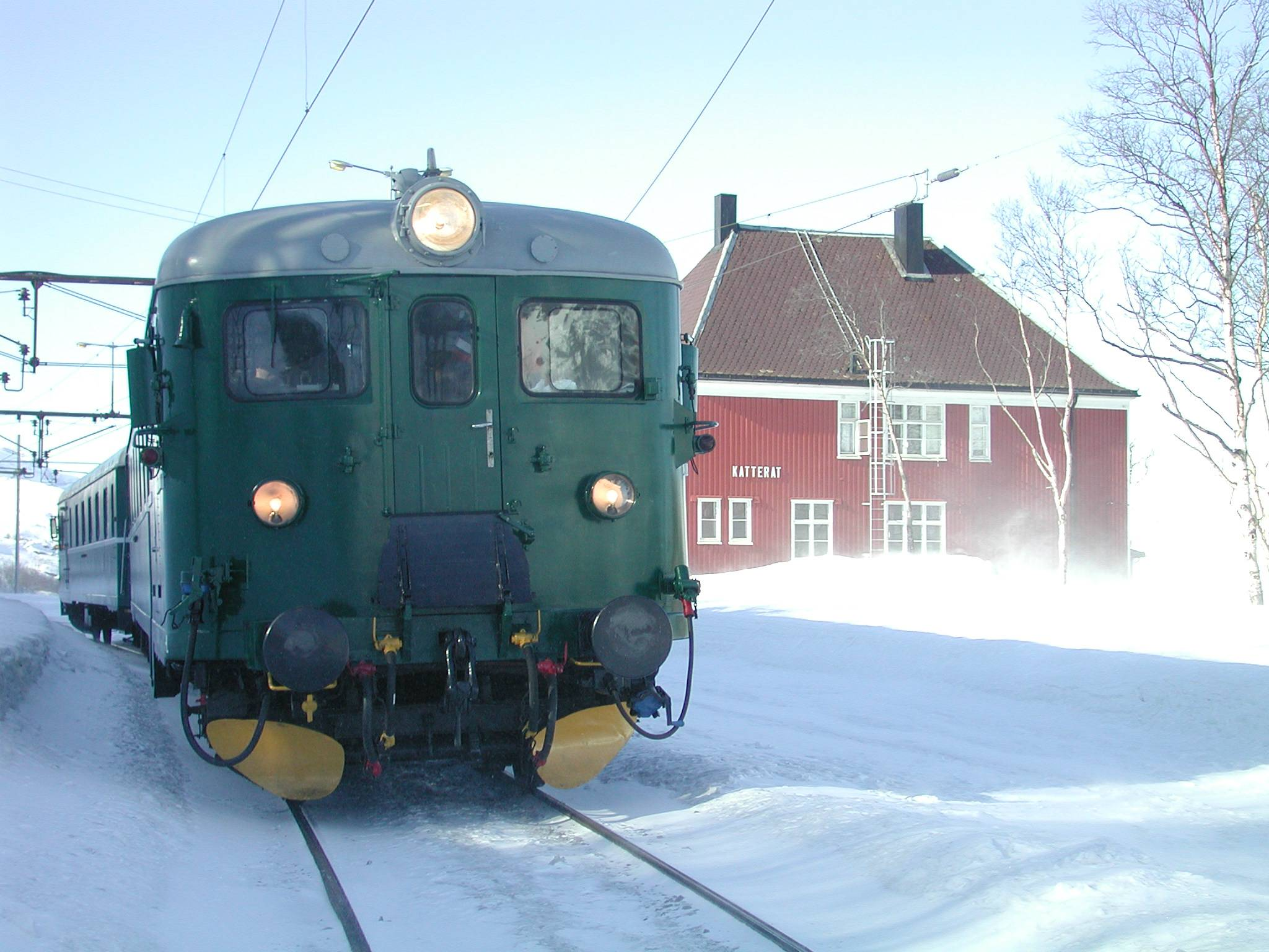 Ofotbanen AS' electric multiple unit BM68 at Katterat station